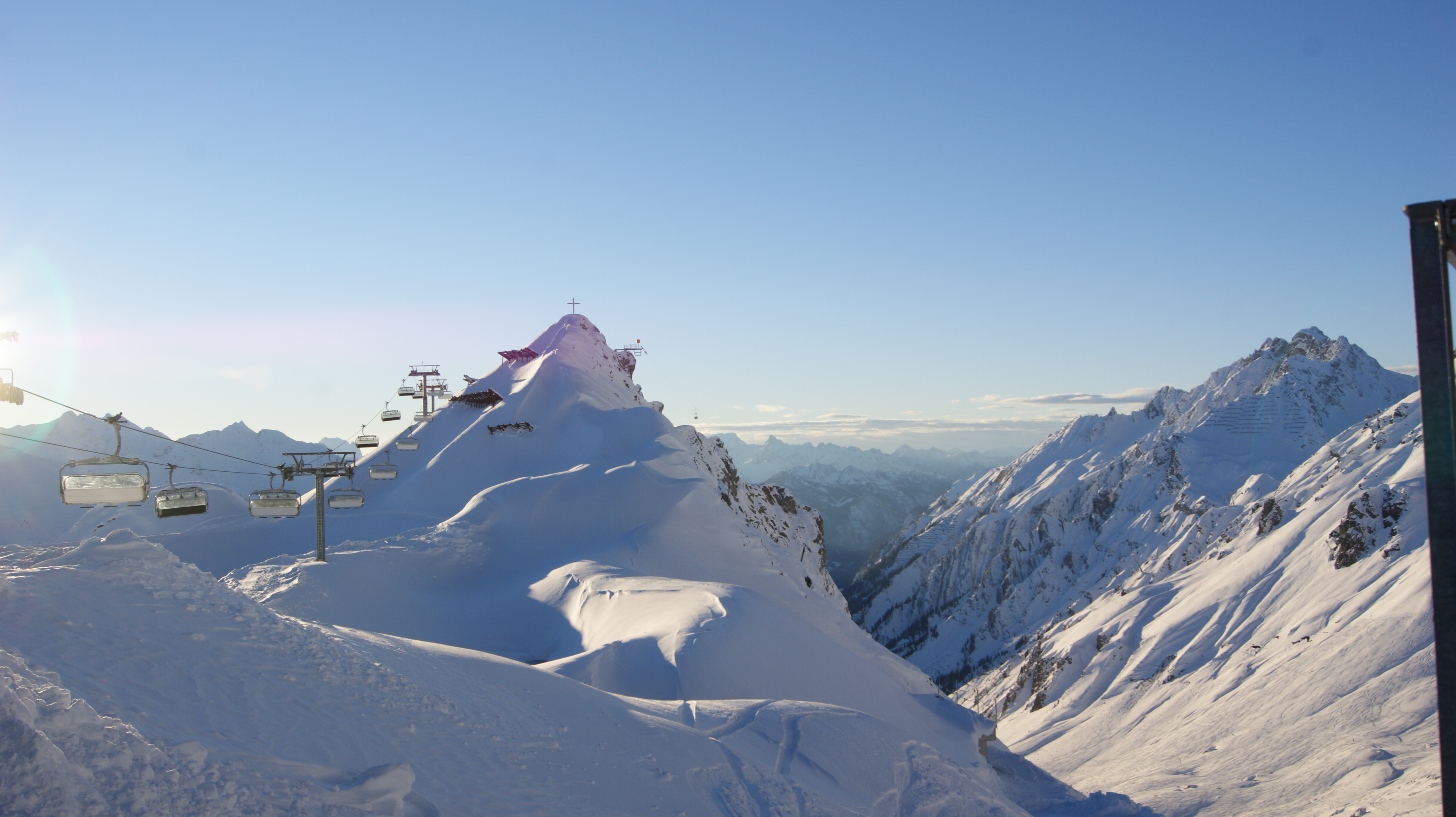 Valfagehrbahn in Klösterle, Vorarlberg, Austria. View of the Pfannenkopf, on the right the avalanche blasting cable car.